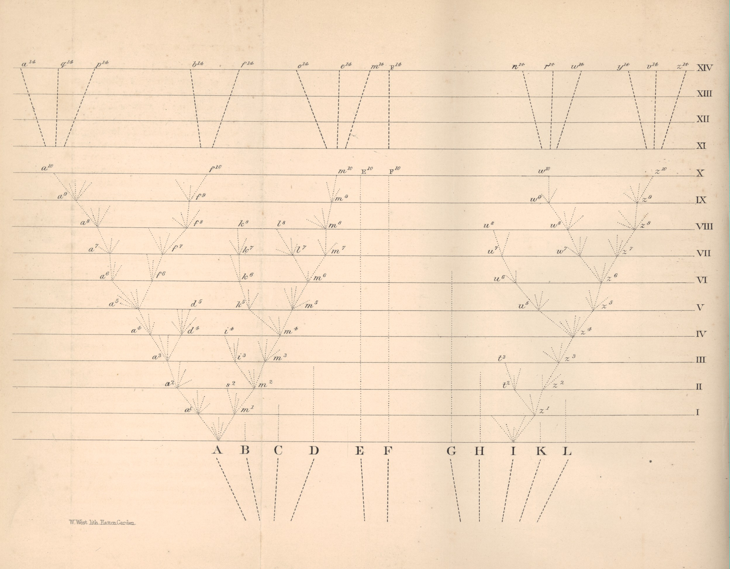 The only illustration in Charles Darwin's 1859 On the Origin of Species, showing the divergence of species.